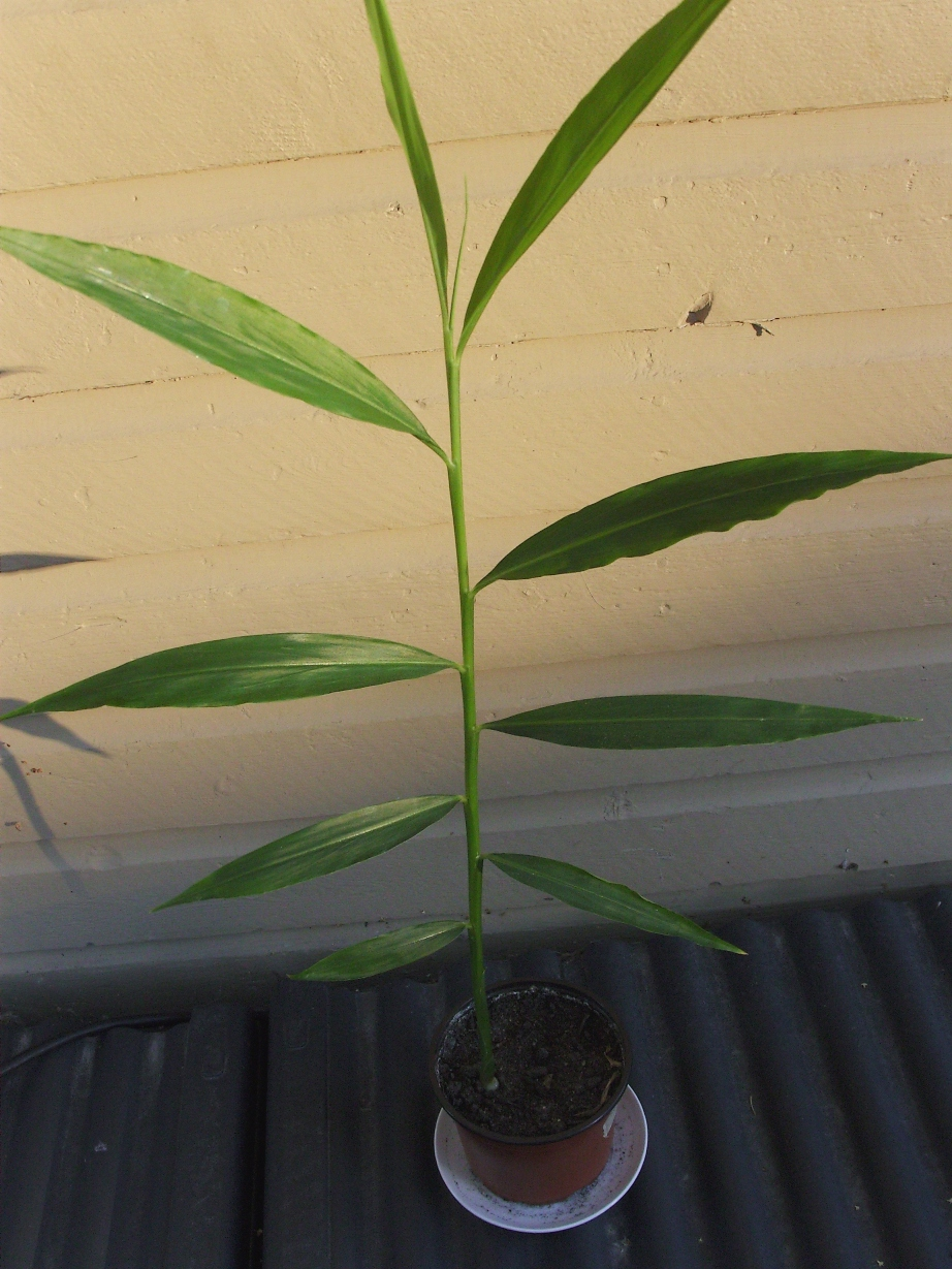 Ginger (Zingiber officinale) growing up in a pot.